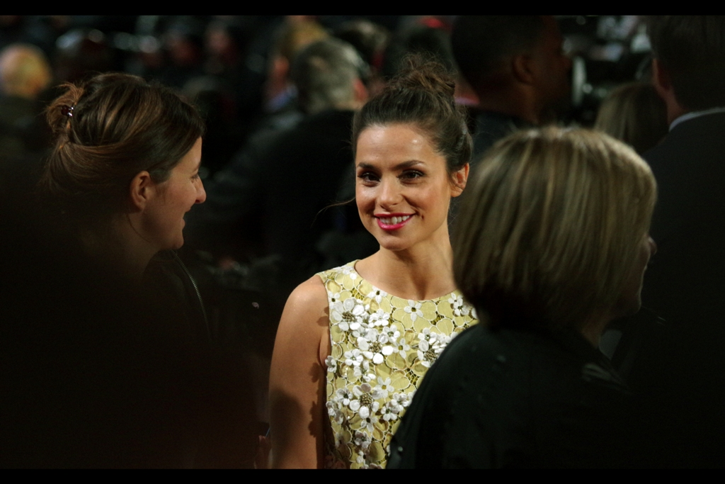 Actress Charlotte Riley at the premiere of Edge of Tomorrow on May 28, 2014